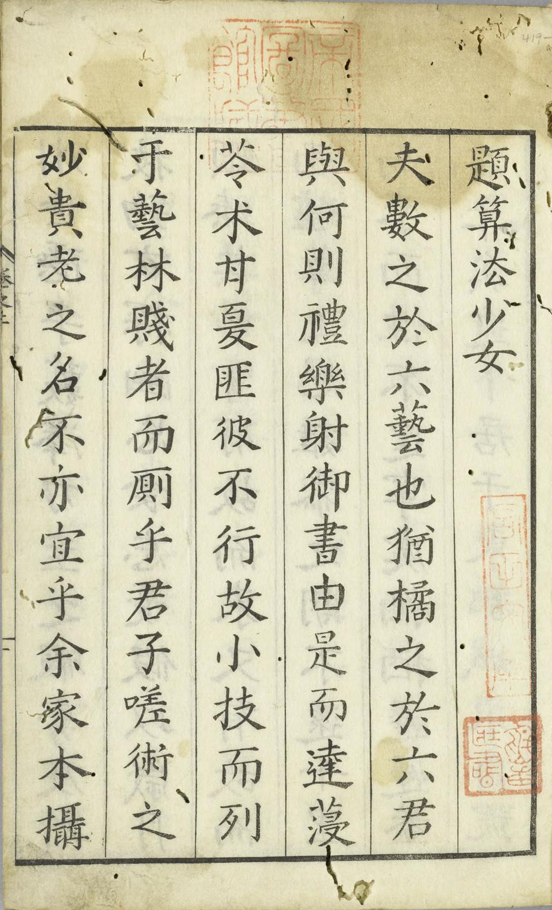 Preface of the 1775 book Sanpou Shojo